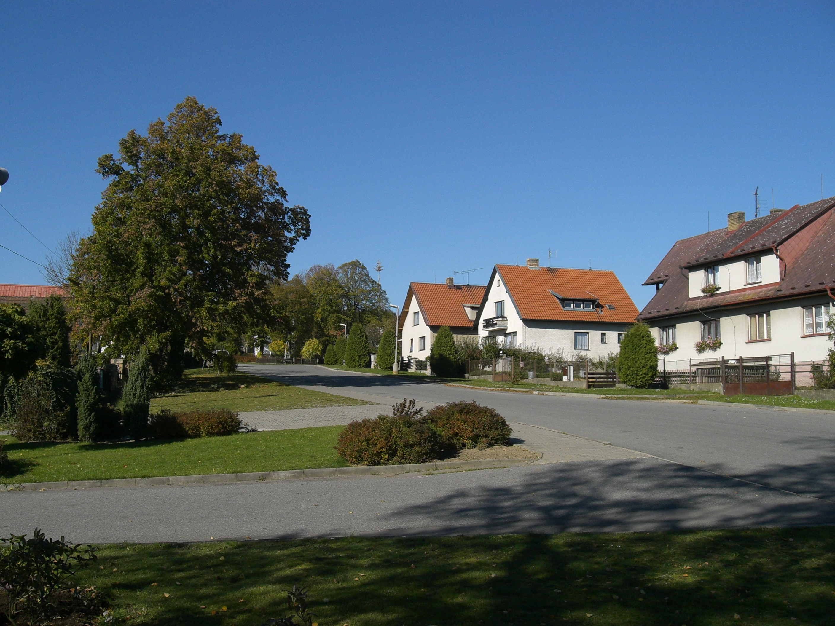 Boudy village near Písek, Czech Republic 49°26′52.627″N 14°2′7.752″E / 49.44795194°N 14.03548667°E